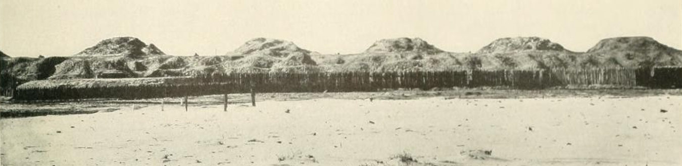 The sea face of Fort Fisher photographed after its capture following the Second Battle of Fort Fisher